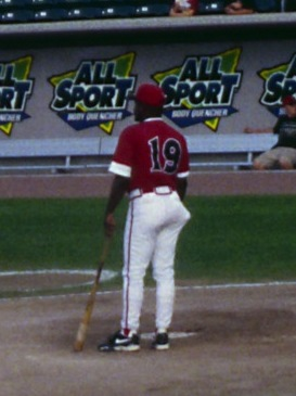 Curtis Wilkerson, hitting coach for the Lansing Lugnuts, in 1996